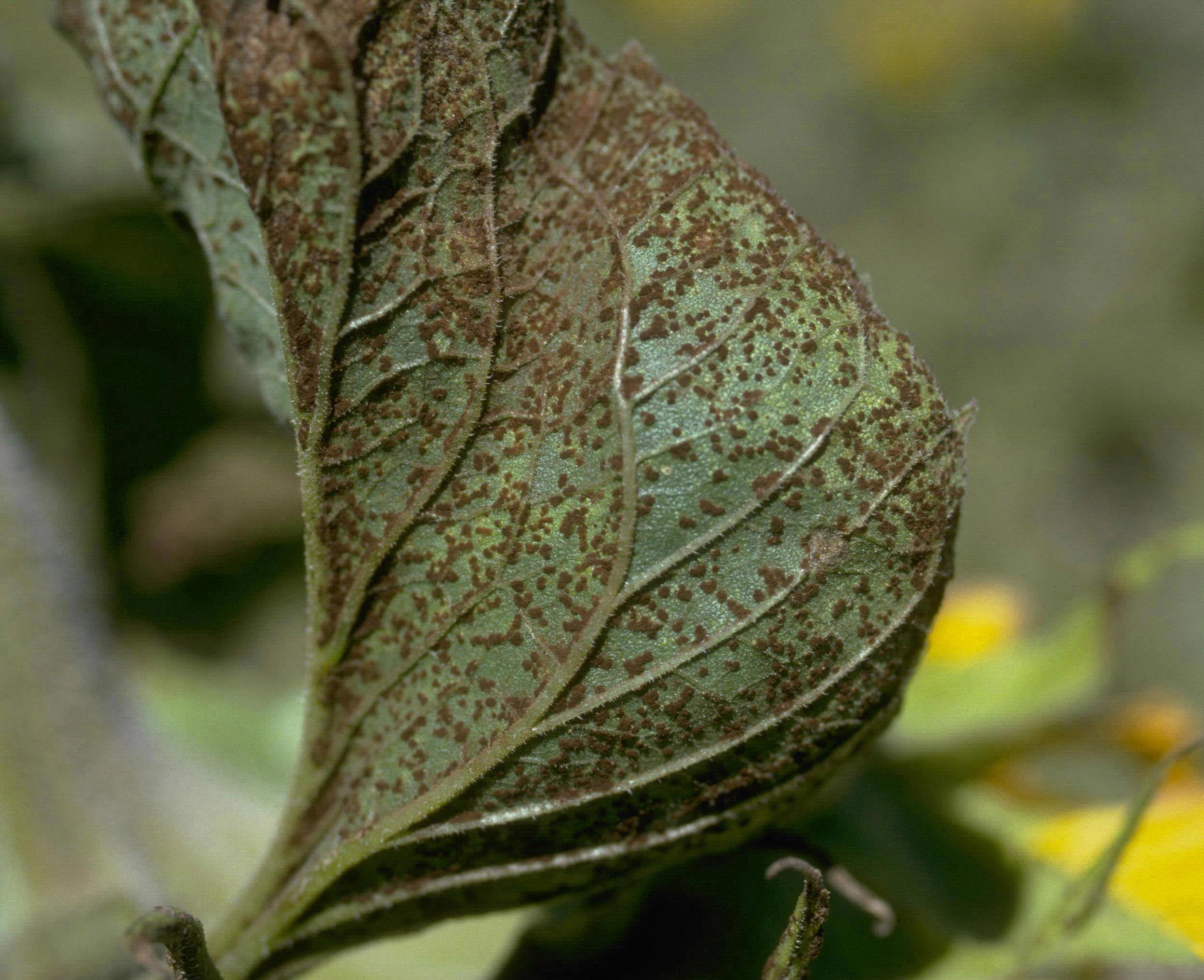 Sunflower infected with the rust fungus Puccinia helianthi